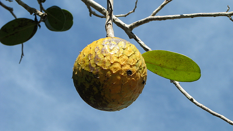 A common species in the restinga area of Bahia, Brazil.